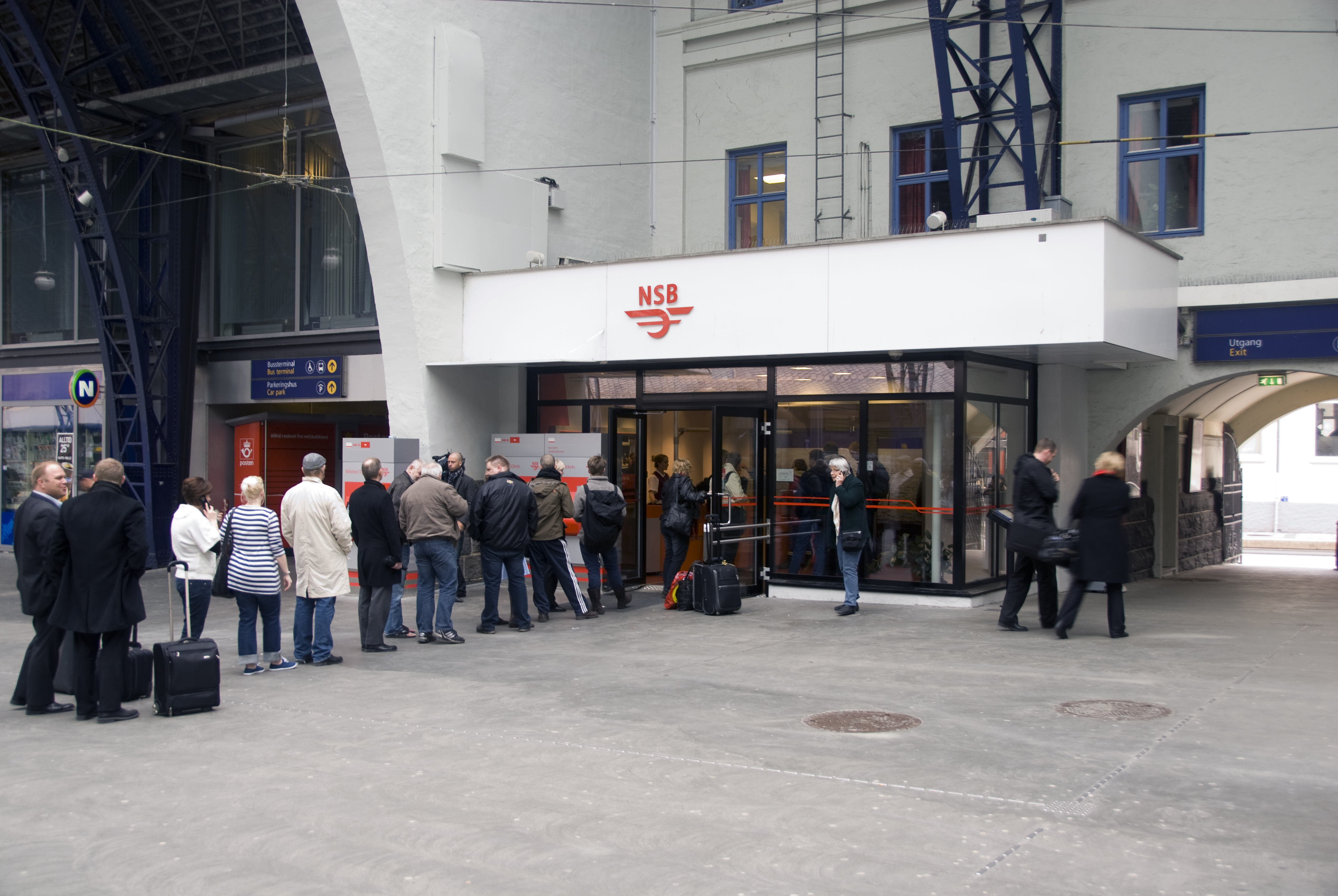 2010 eruptions of Eyjafjallajökull causes air traffic in Norway to close, and subsequent long queues at Bergen Station as people flock to the railway.